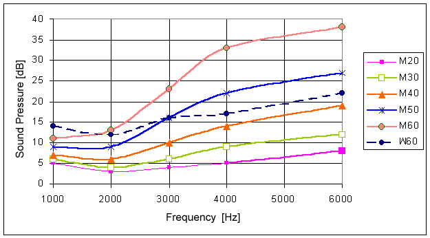 Absolute thresholds of hearing by age in males and females. The image is taken from the Dutch Wikipedia and translated for the English Wiki. Original author is User:Ellywa, see Image:Leeftijdgehoordrempel.png